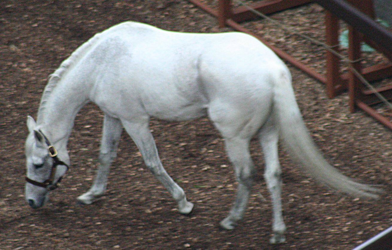 Oguri Cap (Horse, Tokyo Racecourse) at the age of 24 (born in 1985)